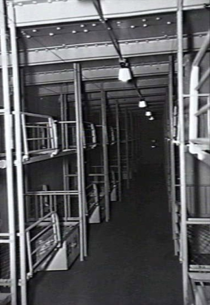 Port Melbourne, Vic. 1943-06-23. The interior of one of the wards aboard the hospital ship Tasman.